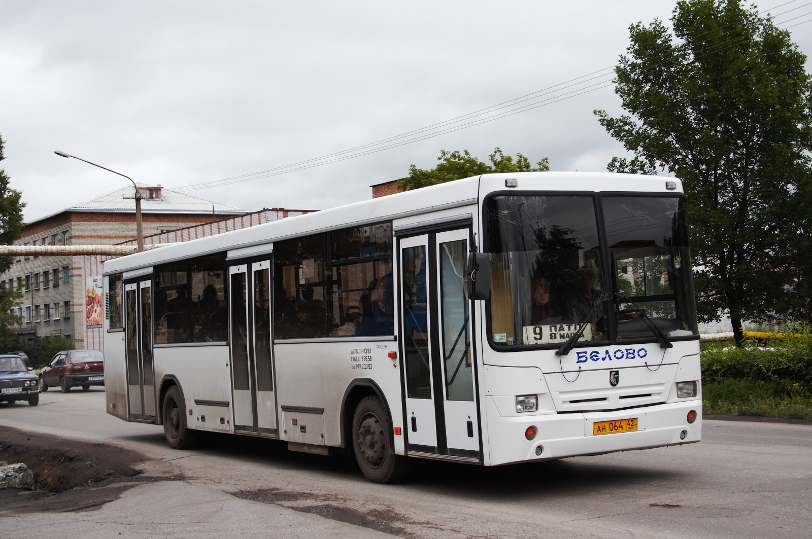 NefAZ 5299 bus (reg. AH 064) in Belovo, Kemerovo Oblast (region), Russia.